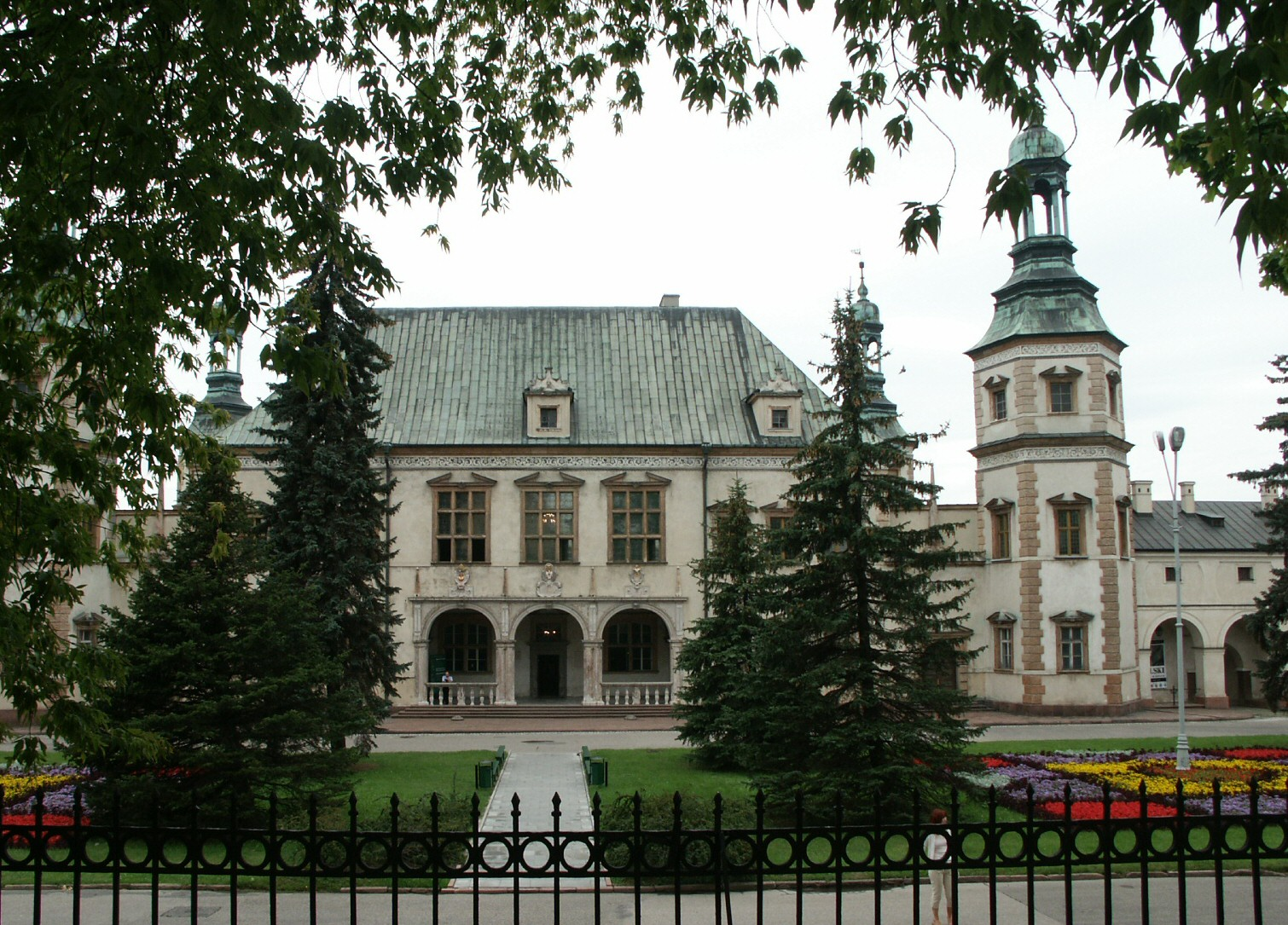 Late Renaissance Polish Mannerist Palace of the Kraków Bishops in Kielce, in Świętokrzyskie Voivodeship, Poland